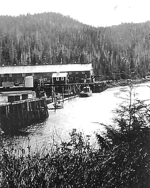 I alone created this image in November, 1991 using a Minox 35 GT camera and Kodacolor 35 mm film. The image shows Wales Island, British Columbia, looking northwards from Portland Inlet.